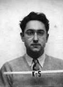 Joseph W. Kennedy Los Alamos wartime security badge.